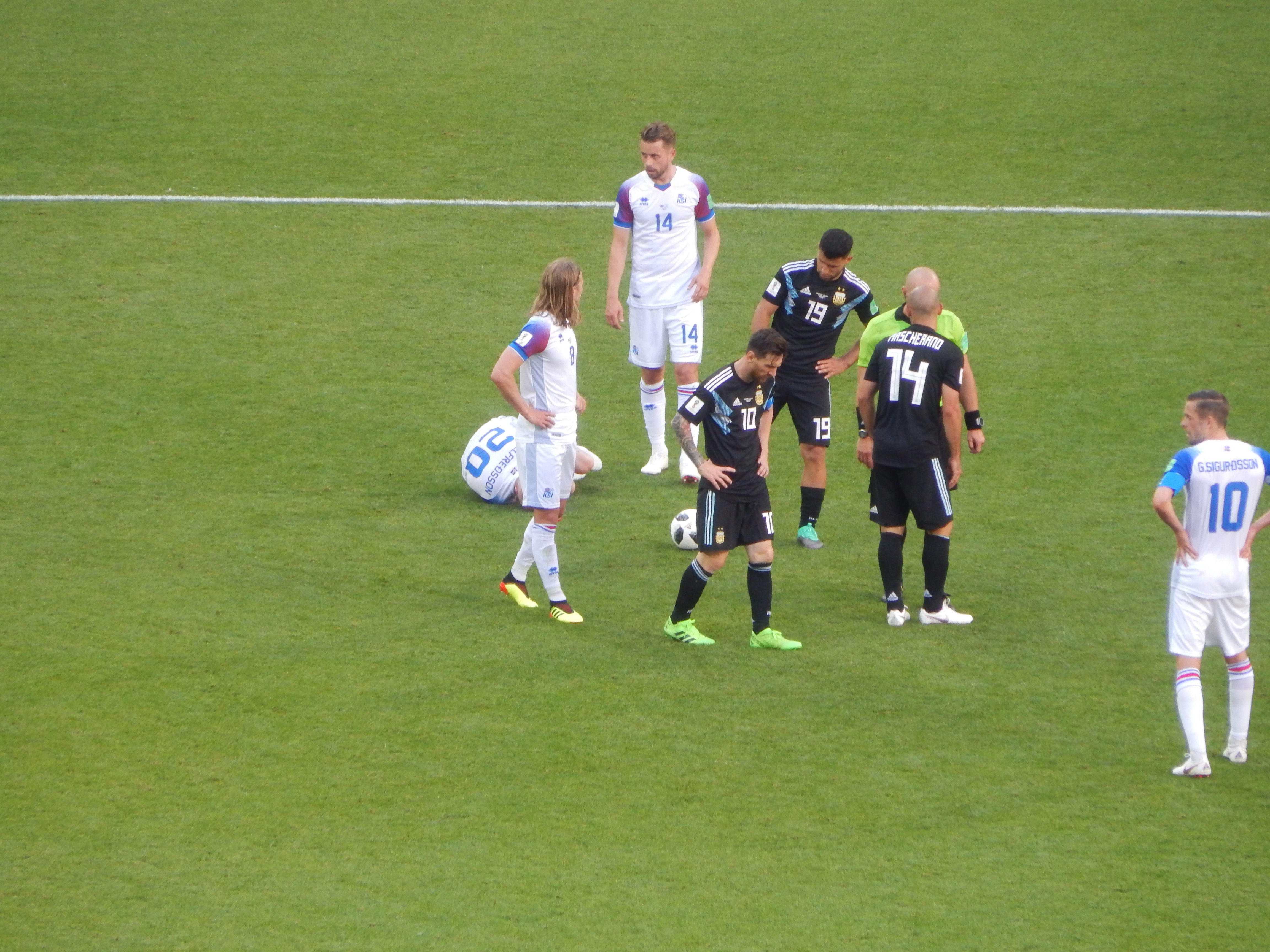 FIFA World Cup 2018, Group D, Argentina vs. Iceland